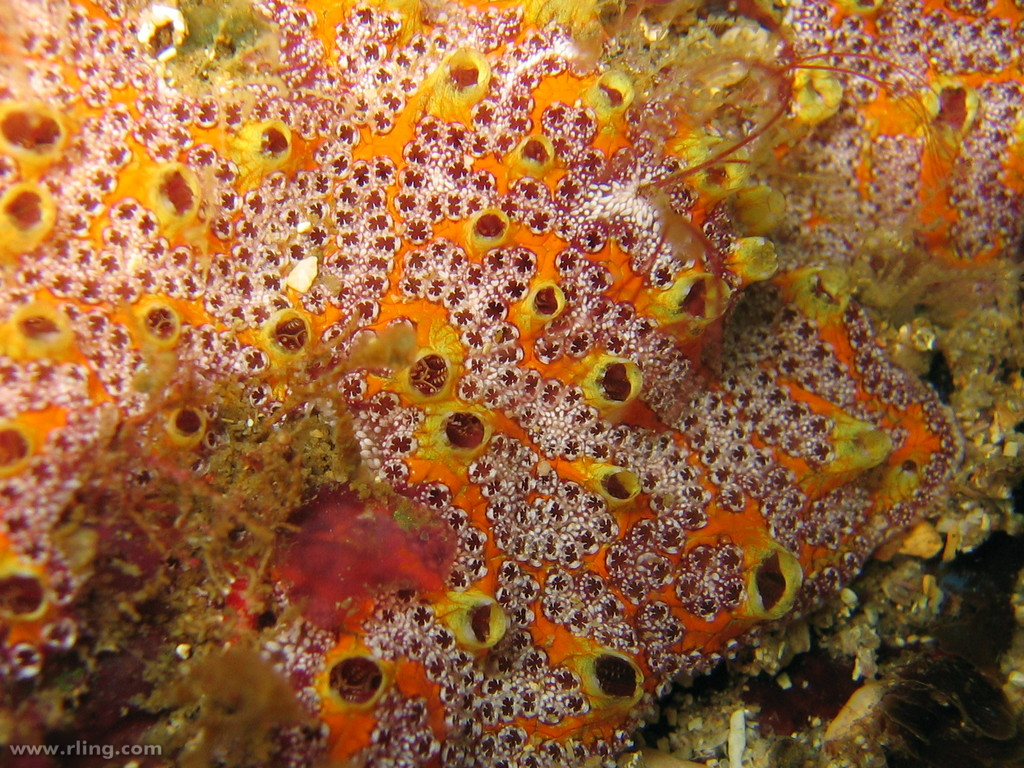 The colonial Magnificent Ascidian (Botrylloides magnicoecum). Bass Point, Shellharbour, NSW